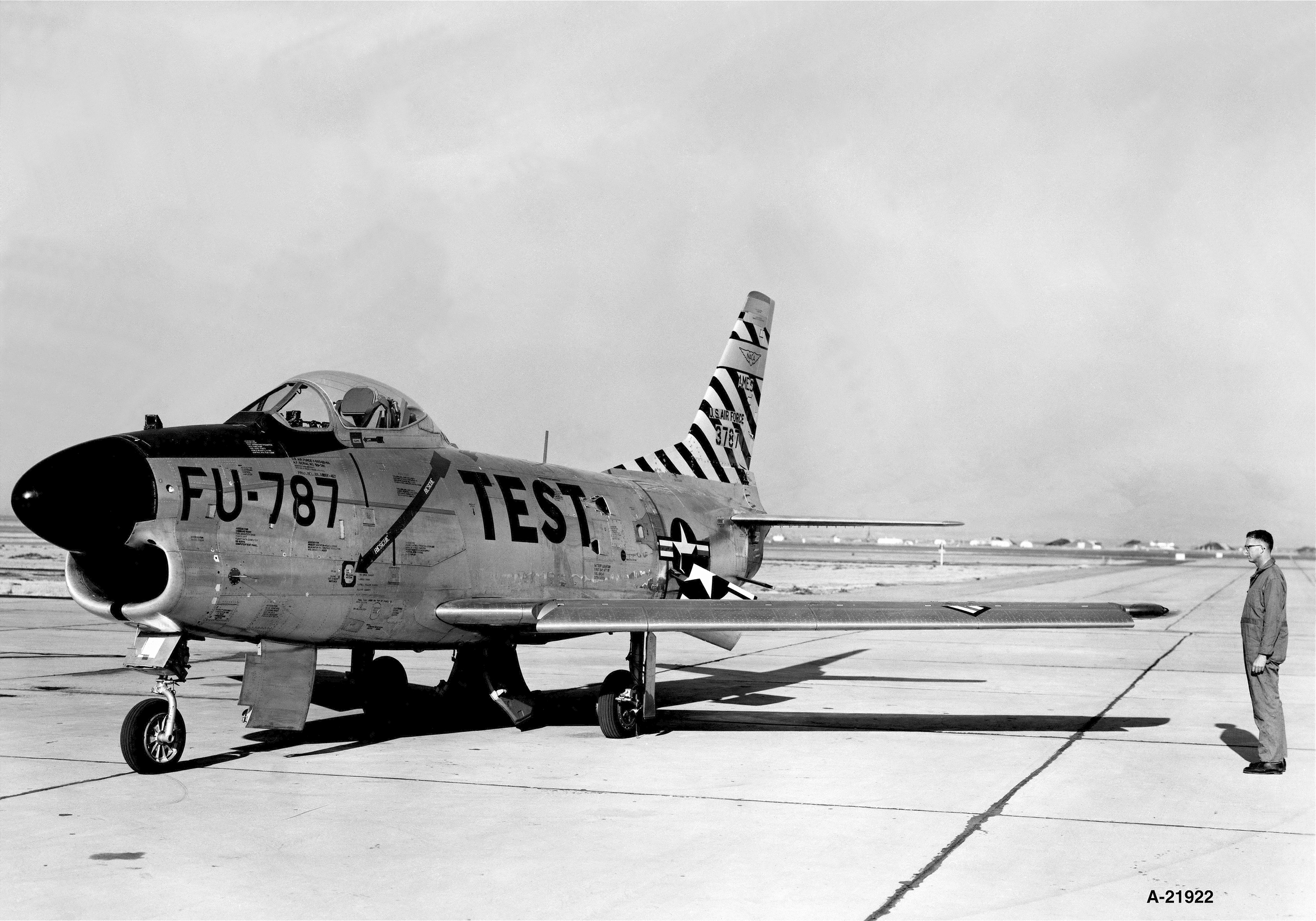 A U.S. Air Force North American F-86D-40-NA Sabre fighter (s/n 52-3787) used by the Ames Aeronautical Laboratory of the National Advisory Committee for Aeronautics (NACA), at Moffett Field, California (USA), for gunsight tracking and guidance and control displays from 17 March 1955 to 1 February 1960.